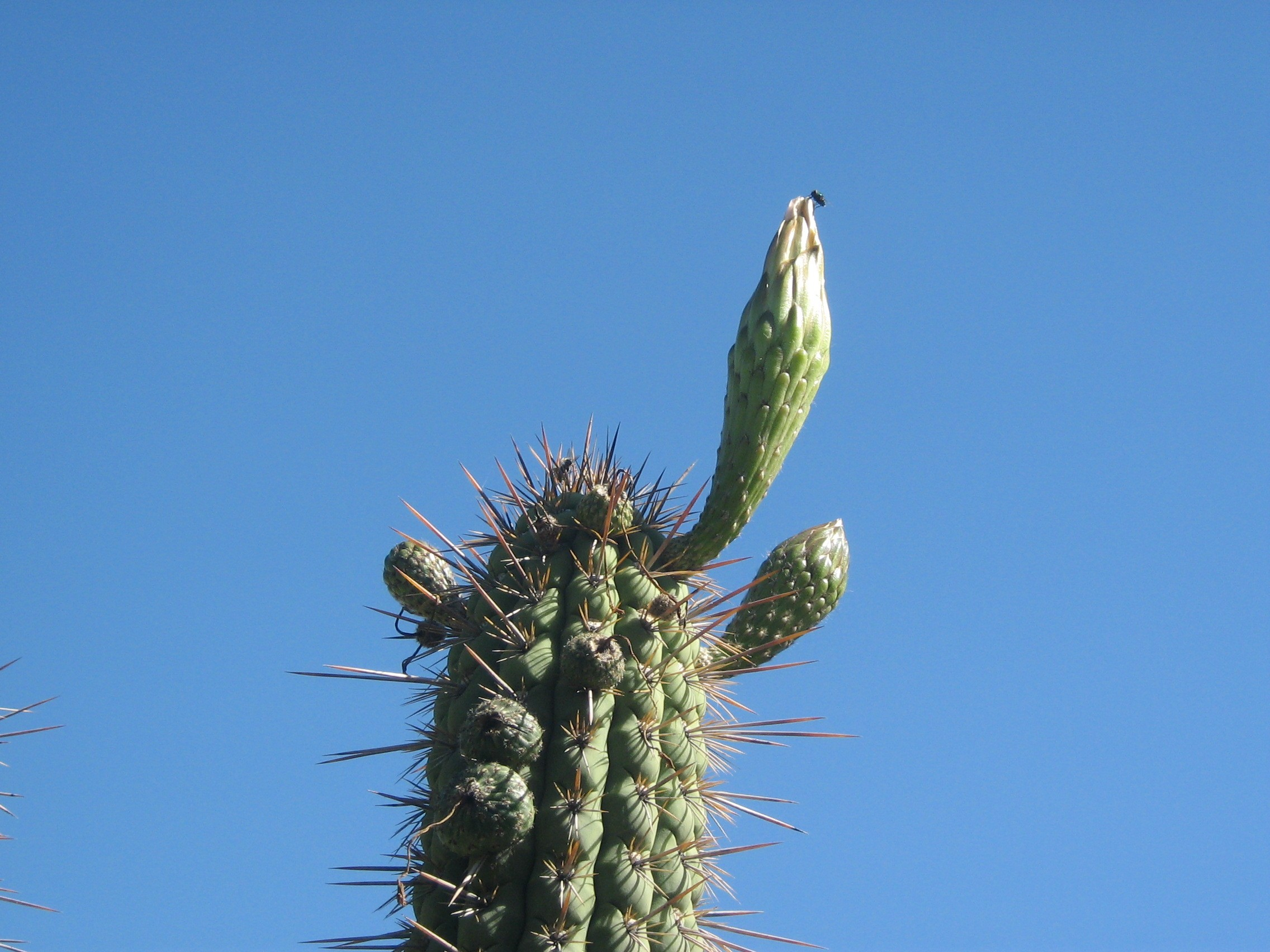 Echinopsis chiloensis, detail of flowering buds, Mapulemu, San Cristobal Santiago de Chile